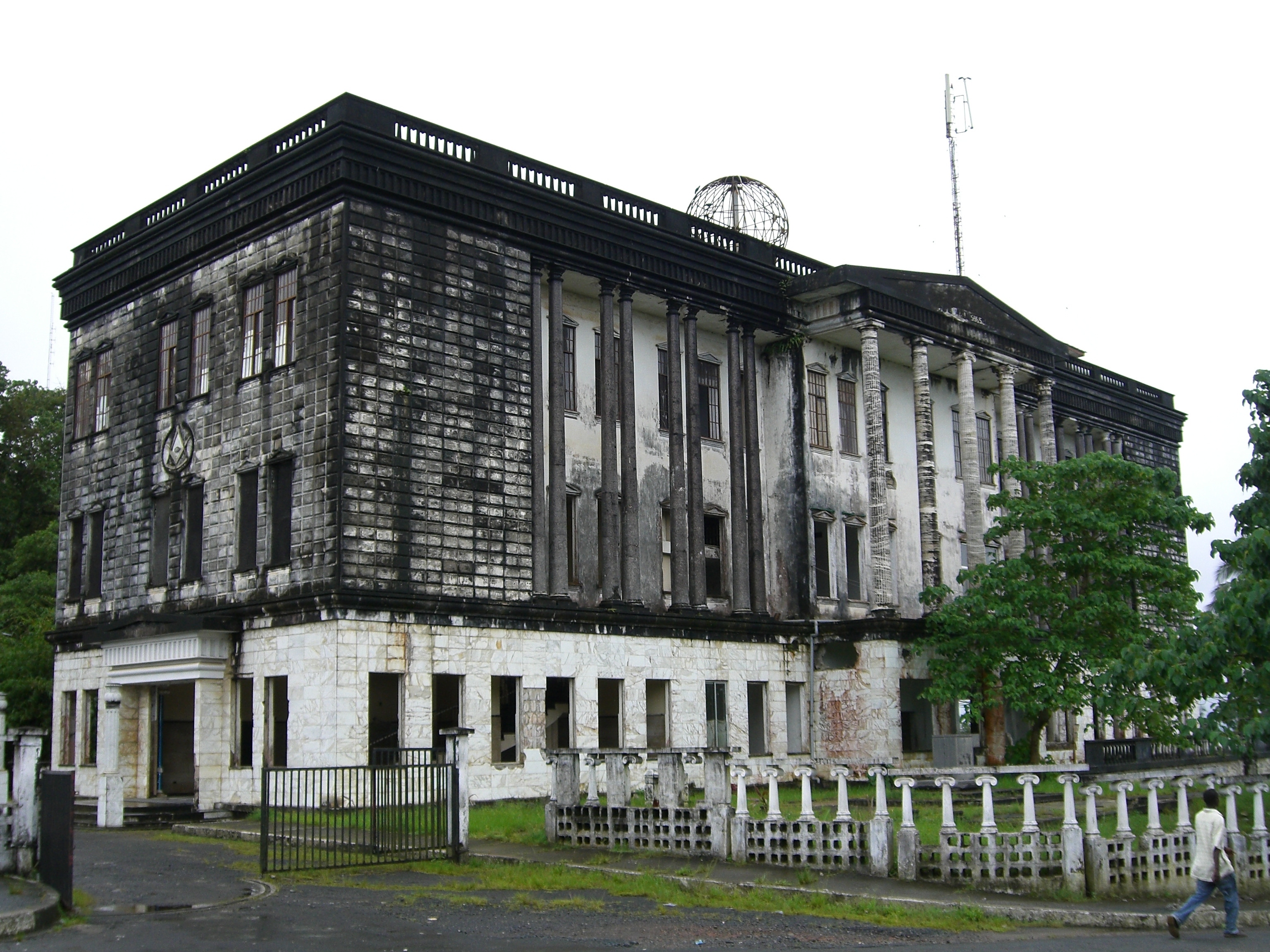 Former Masonic lodge palace in Monrovia, Liberia, 2006